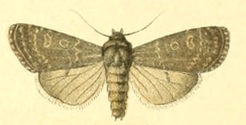 Image from Plate 6 of Die Gross-Schmetterlinge der Erde (The Macrolepidoptera of the World) Vol. 3